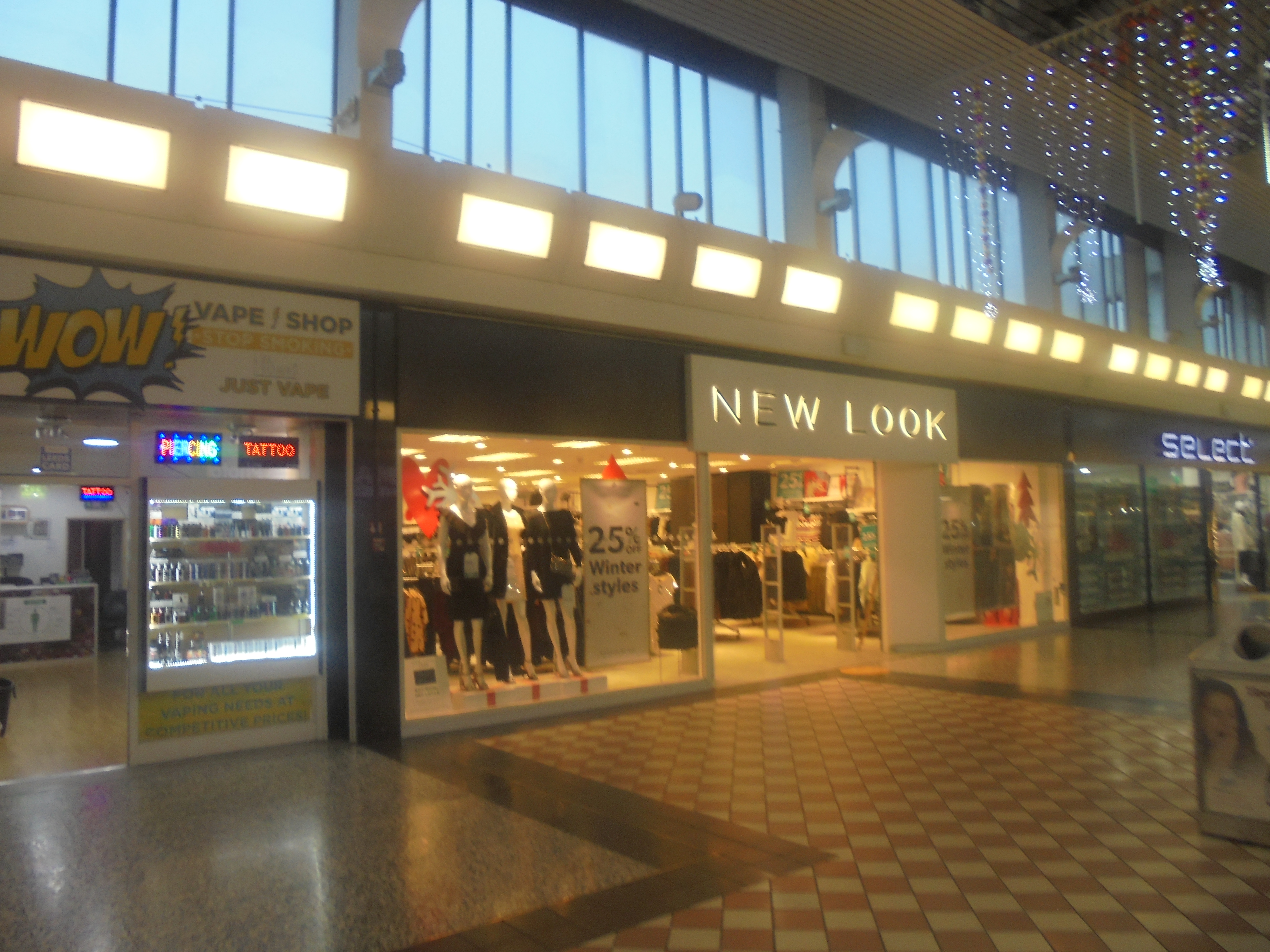 New Look, Cross Gates Centre, Cross Gates, Leeds, West Yorkshire. Taken on the afternoon of Sunday the 24th of November 2019.